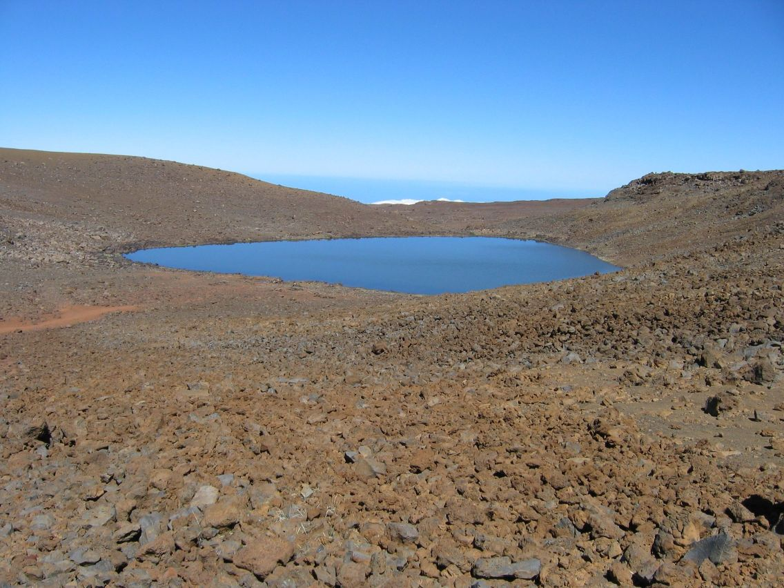 Lake Waiau, Mauna Kea, Hawaiʻi. Photo taken May 8, 2005, by Karl Magnacca.